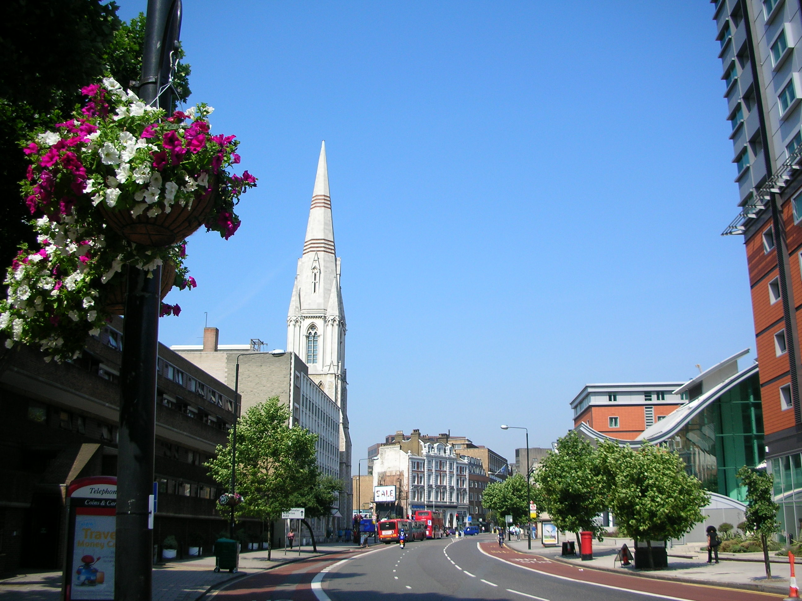 Westminster Bridge Road, London. Photograph by Jonathan Bowen, 2006.